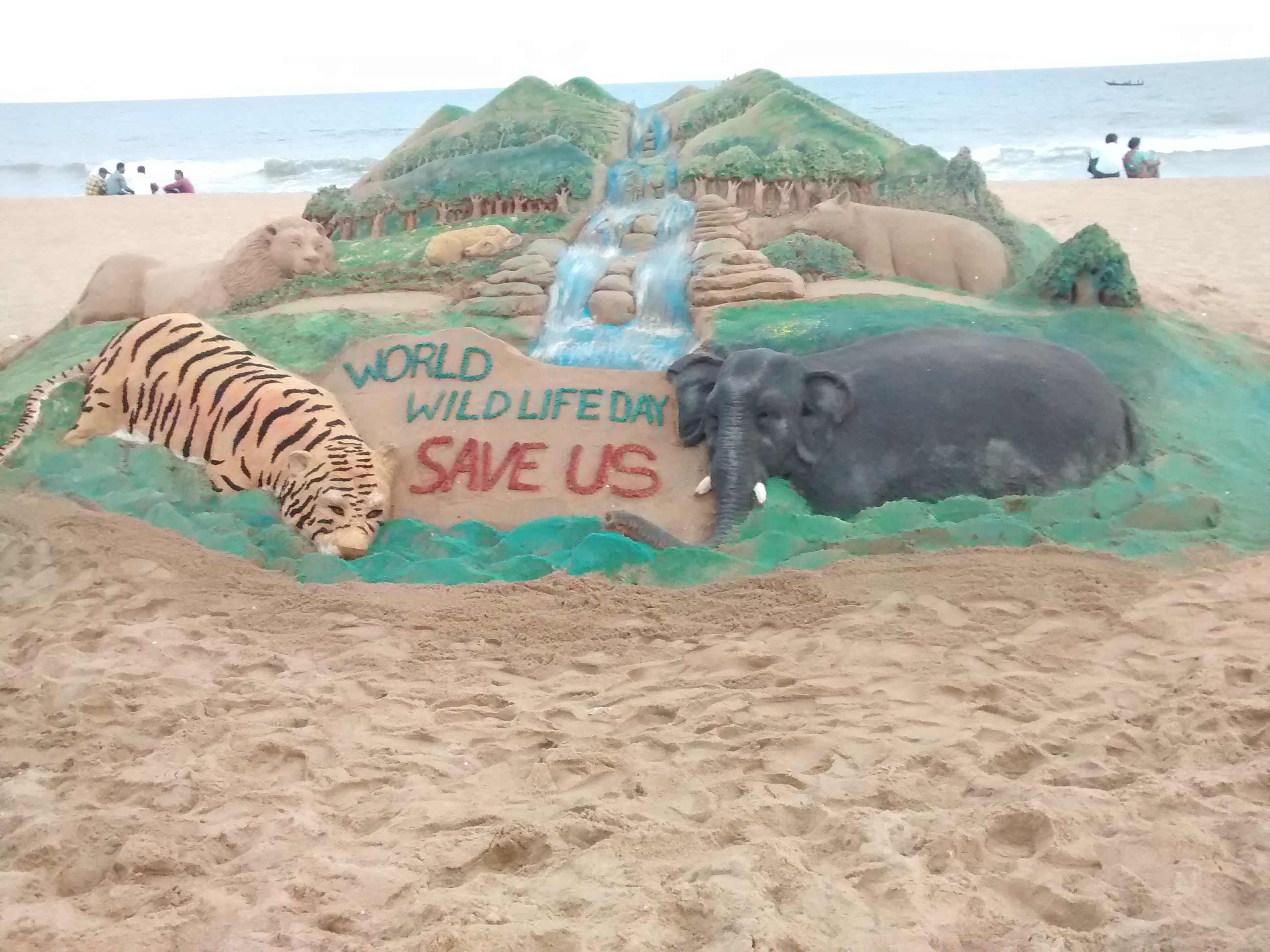 world wild life day